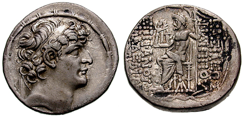 SYRIA, Seleukid Kings. Philip Philadelphos. 89-83 BC. AR Tetradrachm (16.16 gm). Antioch Diademed head of Philip right / Zeus seated left, holding Nike and sceptre; monogram under throne. Newell, SMA, 443. Good VF. ($150)